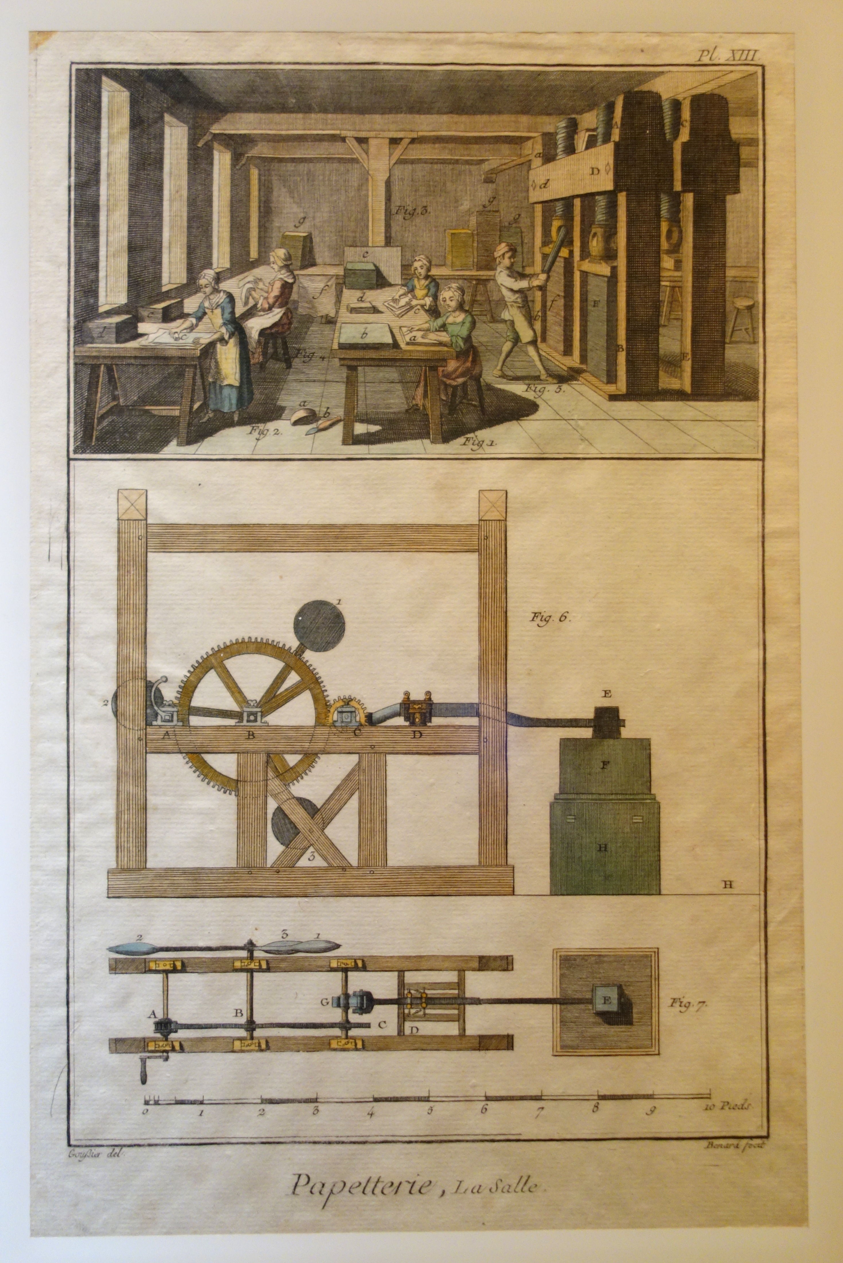 Exhibit in the Robert C. Williams Paper Museum, Atlanta, Georgia, USA. This work is old enough so that it is in the public domain.